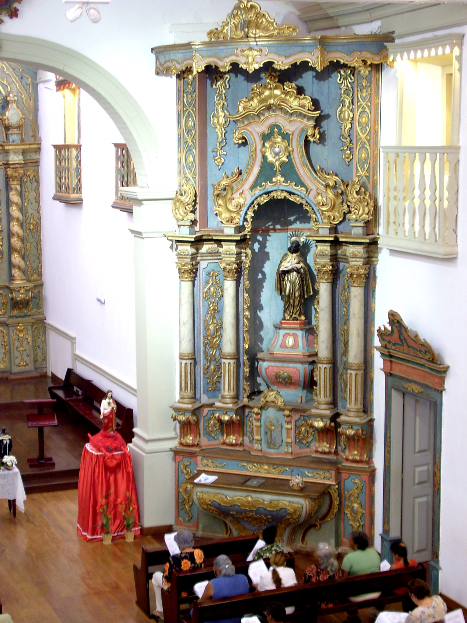 Easterly altar in the Church of Our Lady of the Rosary and the Saint Benedict, dedicated to Saint Benedict the Moor (the image in the niche), Cuiabá, Mato Grosso, Brazil.